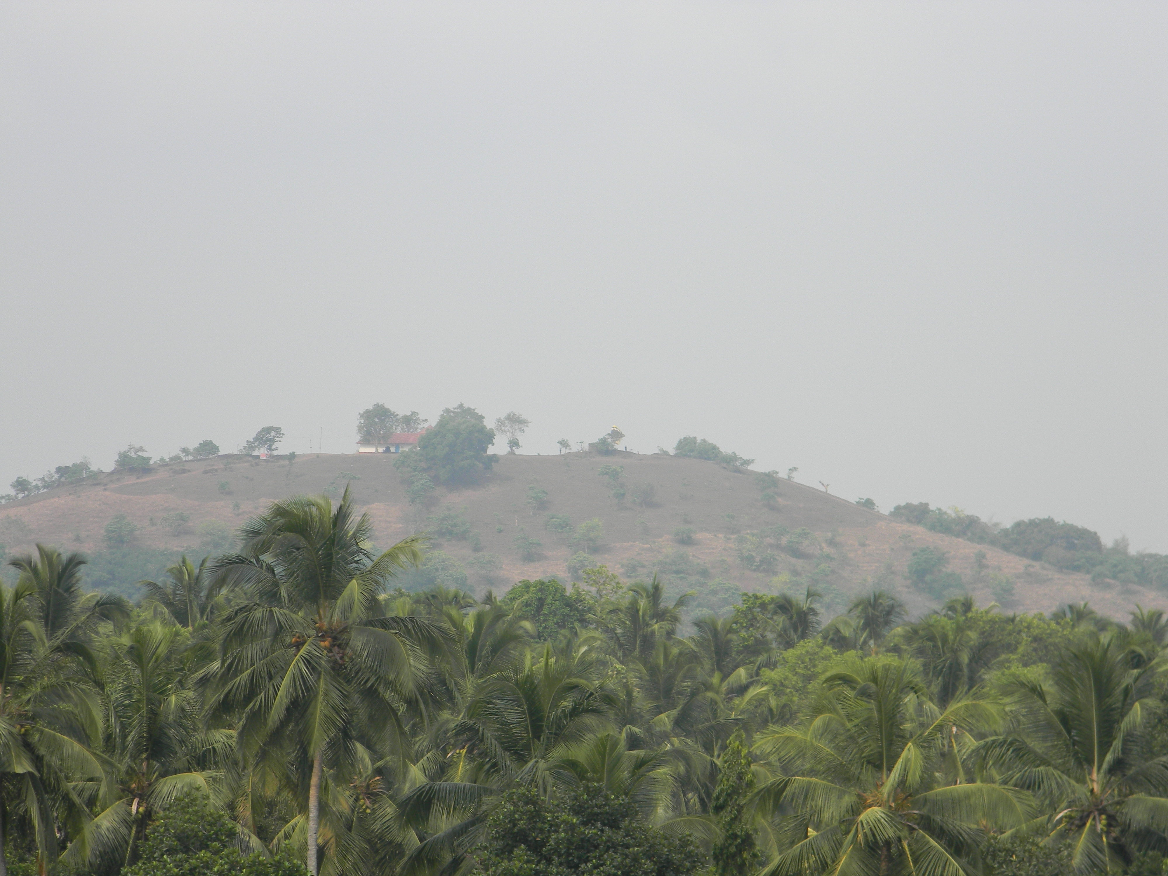 This is a click of the hill perumala located near Kechery,thrissur,Kerala